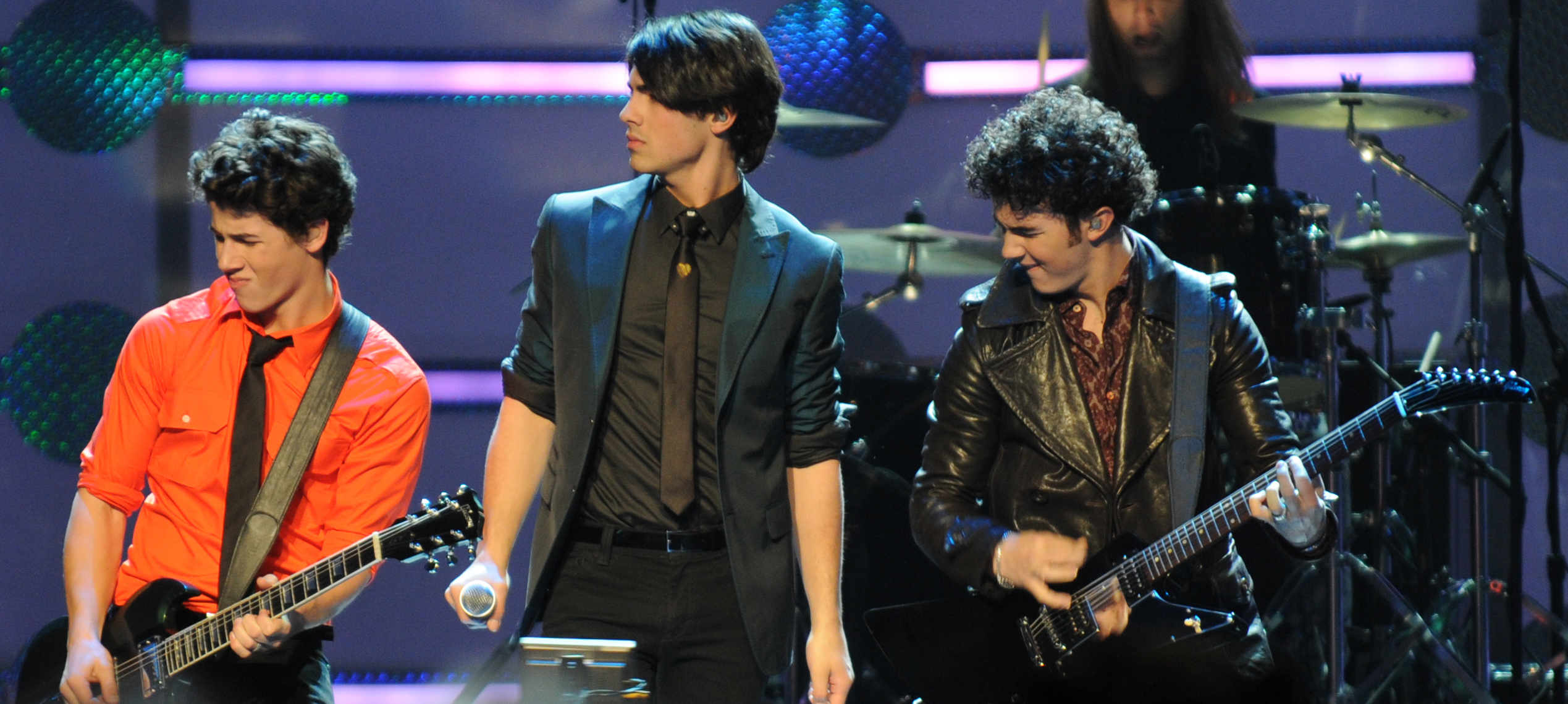 The Jonas Brothers perform at the "Kids Inaugural: We Are the Future" concert at the Verizon Center in downtown Washington, D.C., Jan. 19, 2009.